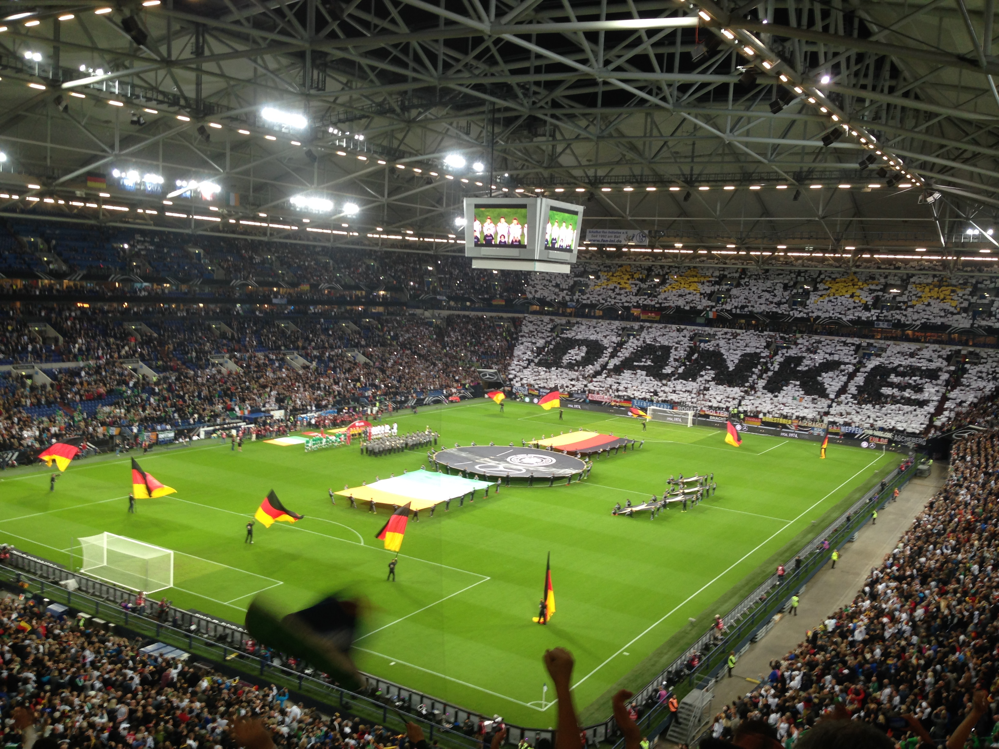 Germany -v- Ireland in the Veltins-Arena, Gelsenkirchen... the match finished 1-1.